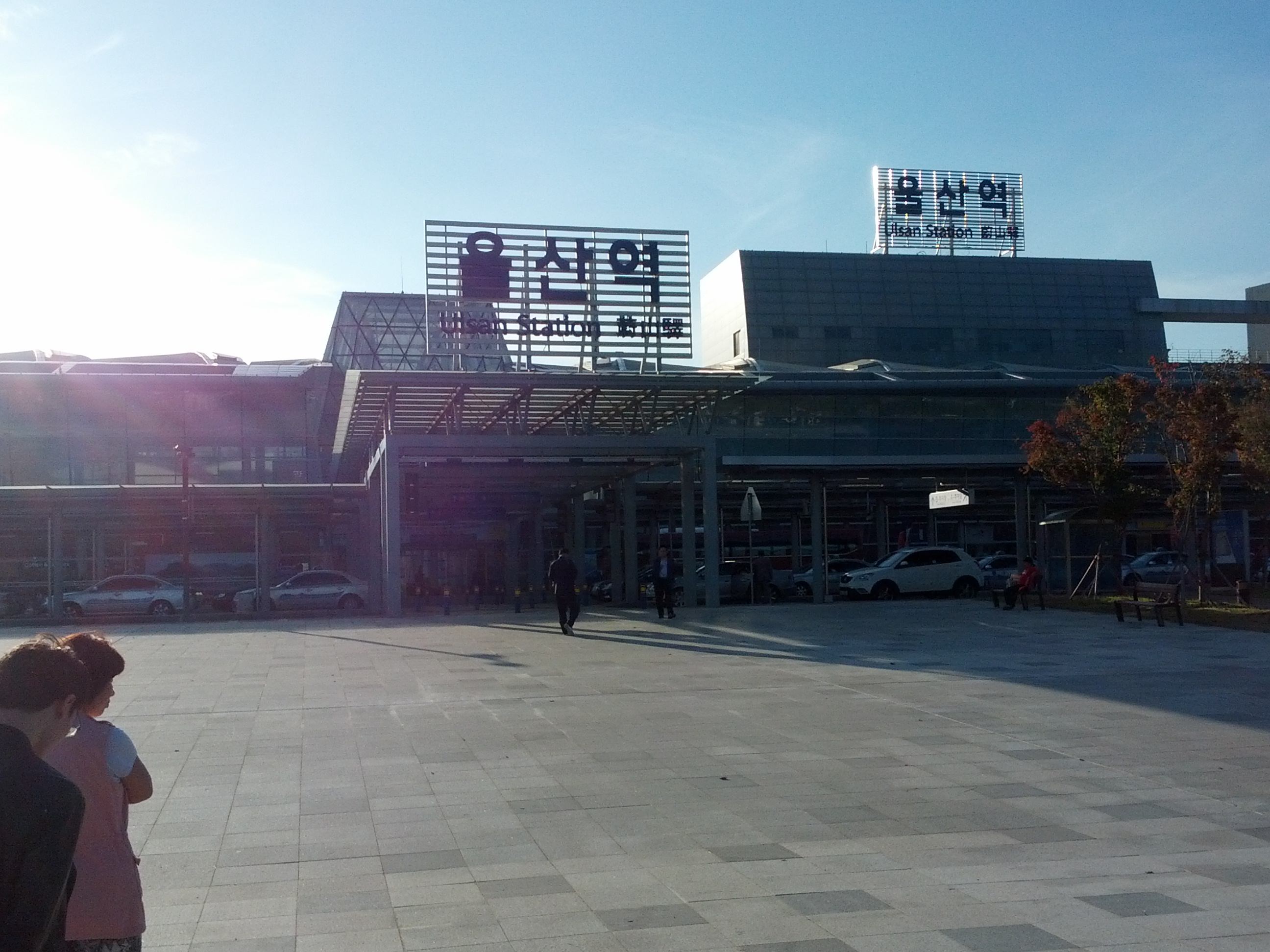 Ulsan Station, shot taken between square and building